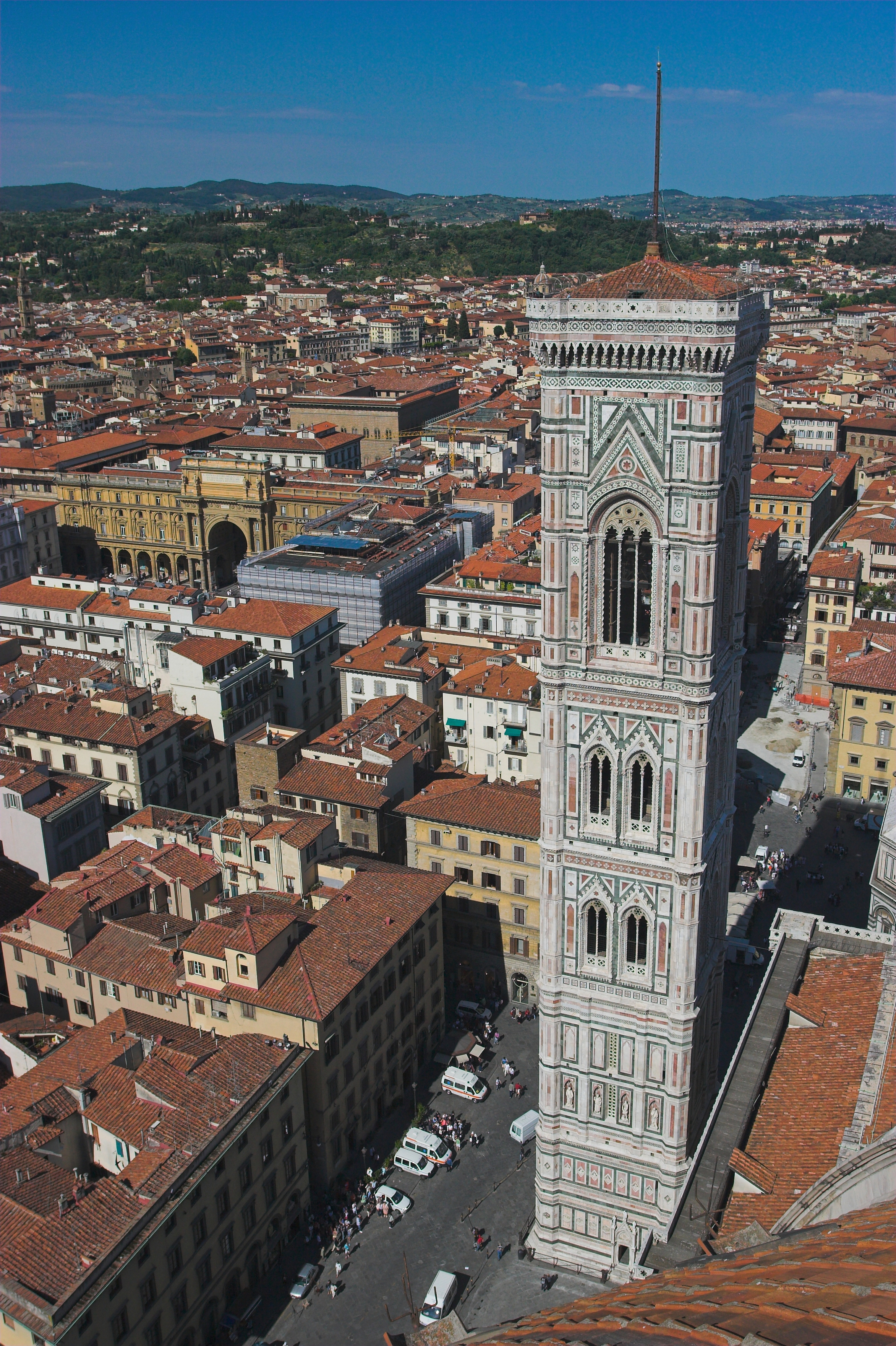 Giotto's belltower as seen from the top of the Duomo cathedral. Photo by Thermos. Equipment used: Canon 20D, 17-40/4 L.